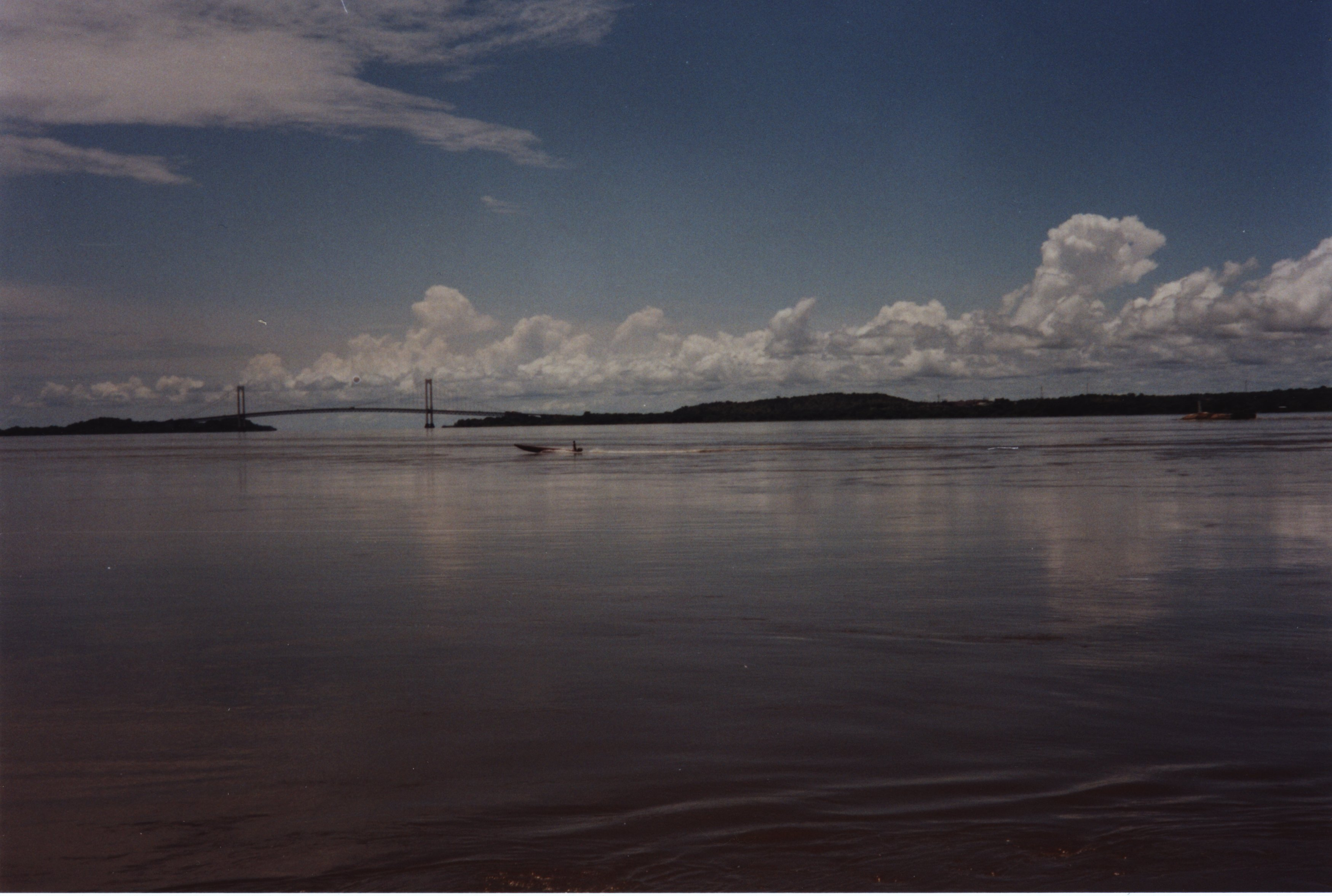 Bridge over the Orinoco River at Ciudad Bolívar